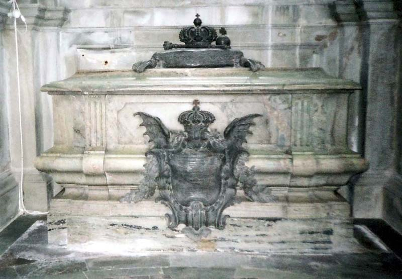 Grave of Queen Ulrica Eleanor of Sweden (1688-1741) on the ground floor of the Caroline Chapel at Riddarholm ChurchPlace: Stockholm, Sweden